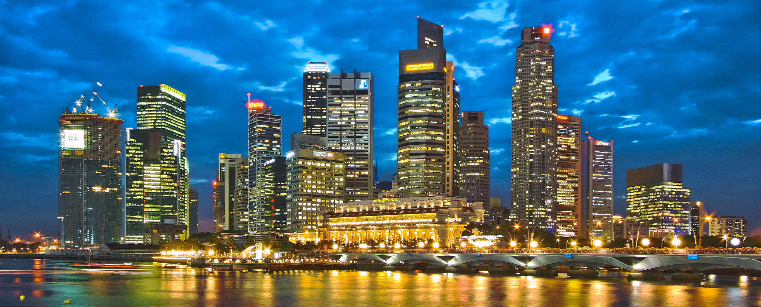 The Singapore Skyline